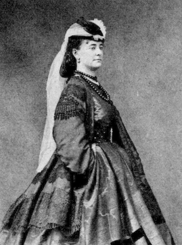 Swedish actress Zelma Carolina Esolinda Hedin (1827-1874)